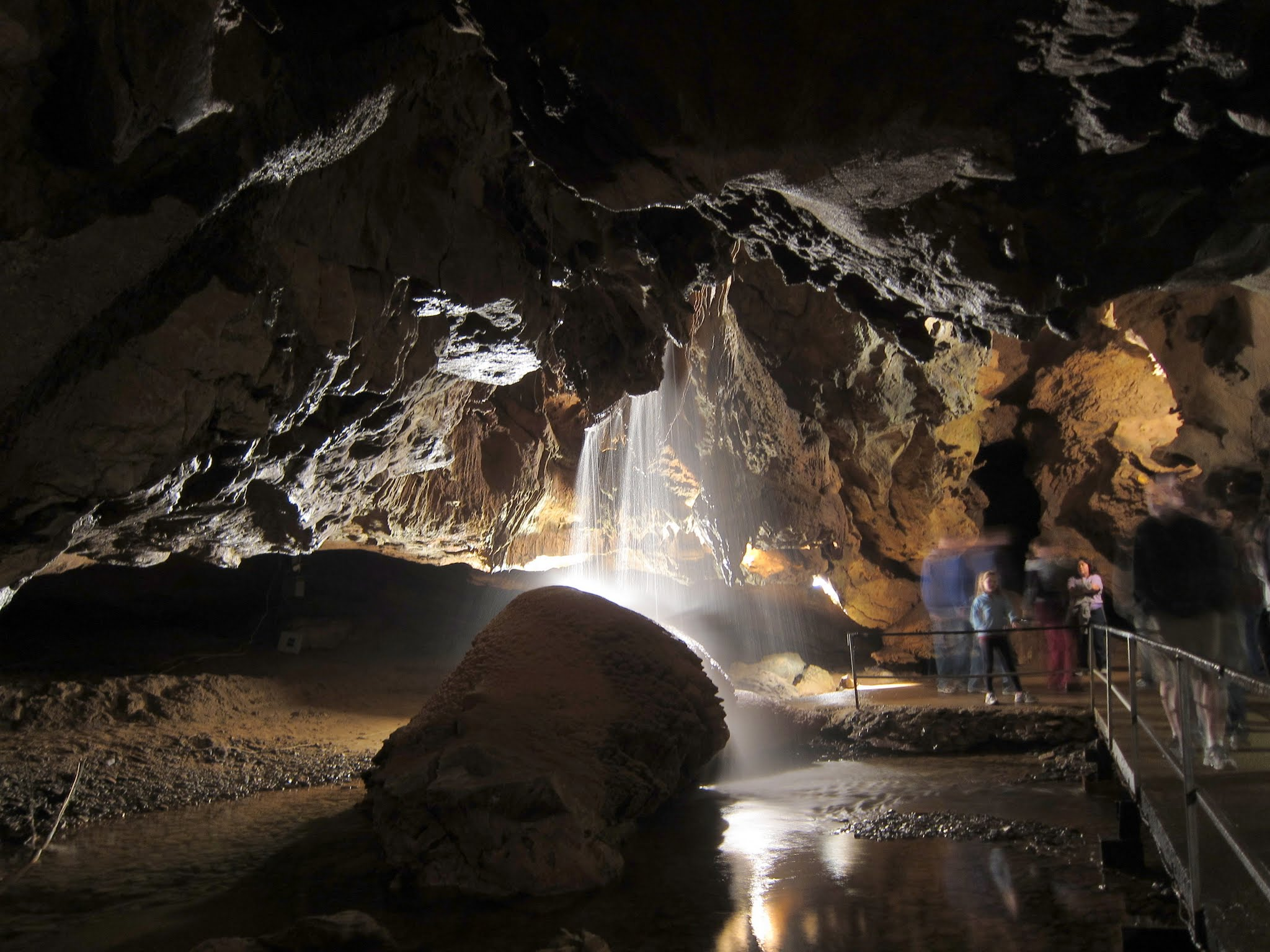 Subsurface Waterfall